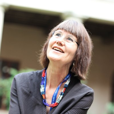 Gunilla Lundgren "L'Africa a scuola", a round table organised by lettera27, curated by Paola Splendore and Sandro Triulzi introduced by Livia Apa with Cristina Ali Farah, Gunila Lundgren, Gabriella Sanna, Giorgio De Marchis. Mantova 09/12/09